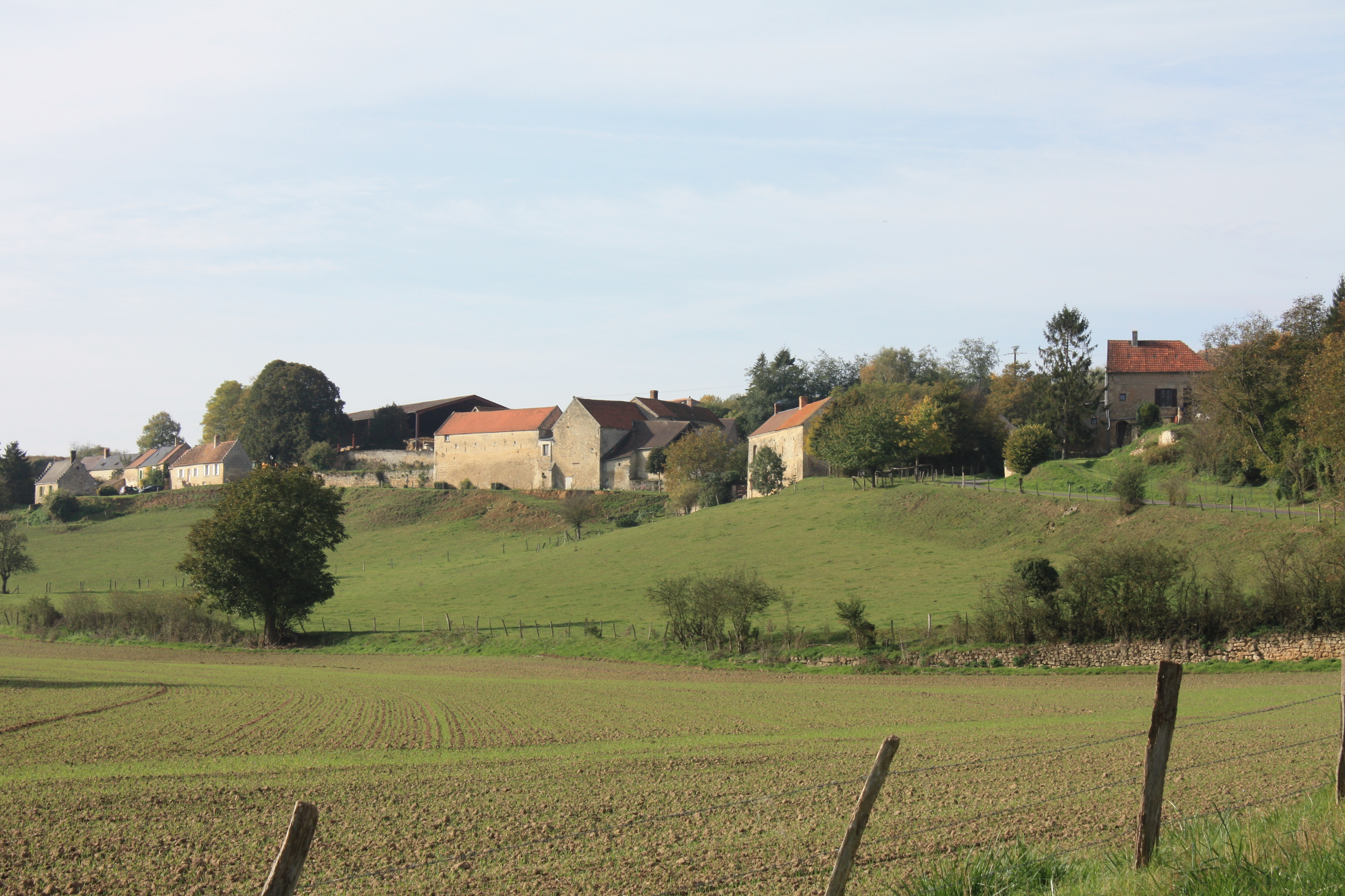 Église Saint-Pierre de Jouaignes 3illage de Tannières